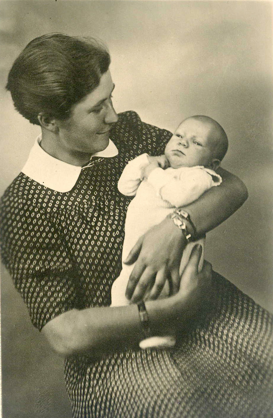 Gertrud Lutz, opponent of the Third Reich, resistance fighter, executed 1944 by the Nazis